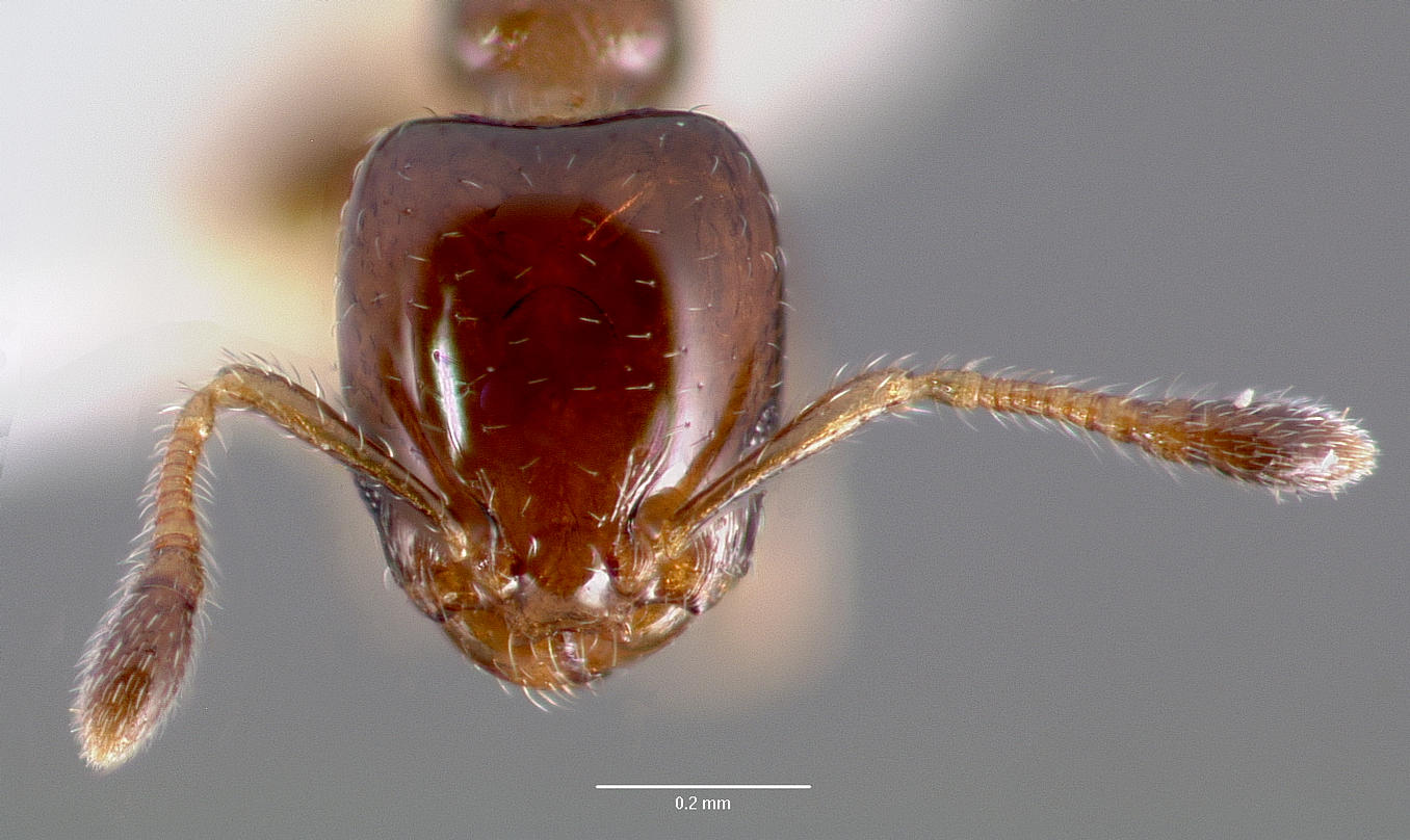 Head view of ant Xenomyrmex floridanus specimen casent0000499.